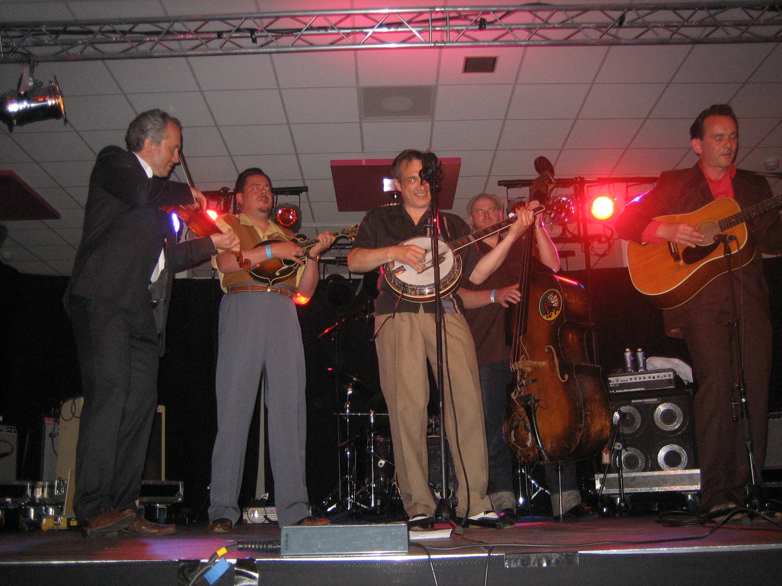 Blue Grass Boogiemen performing at the Blue Highwaysfestival in Utrecht, The Netherlands